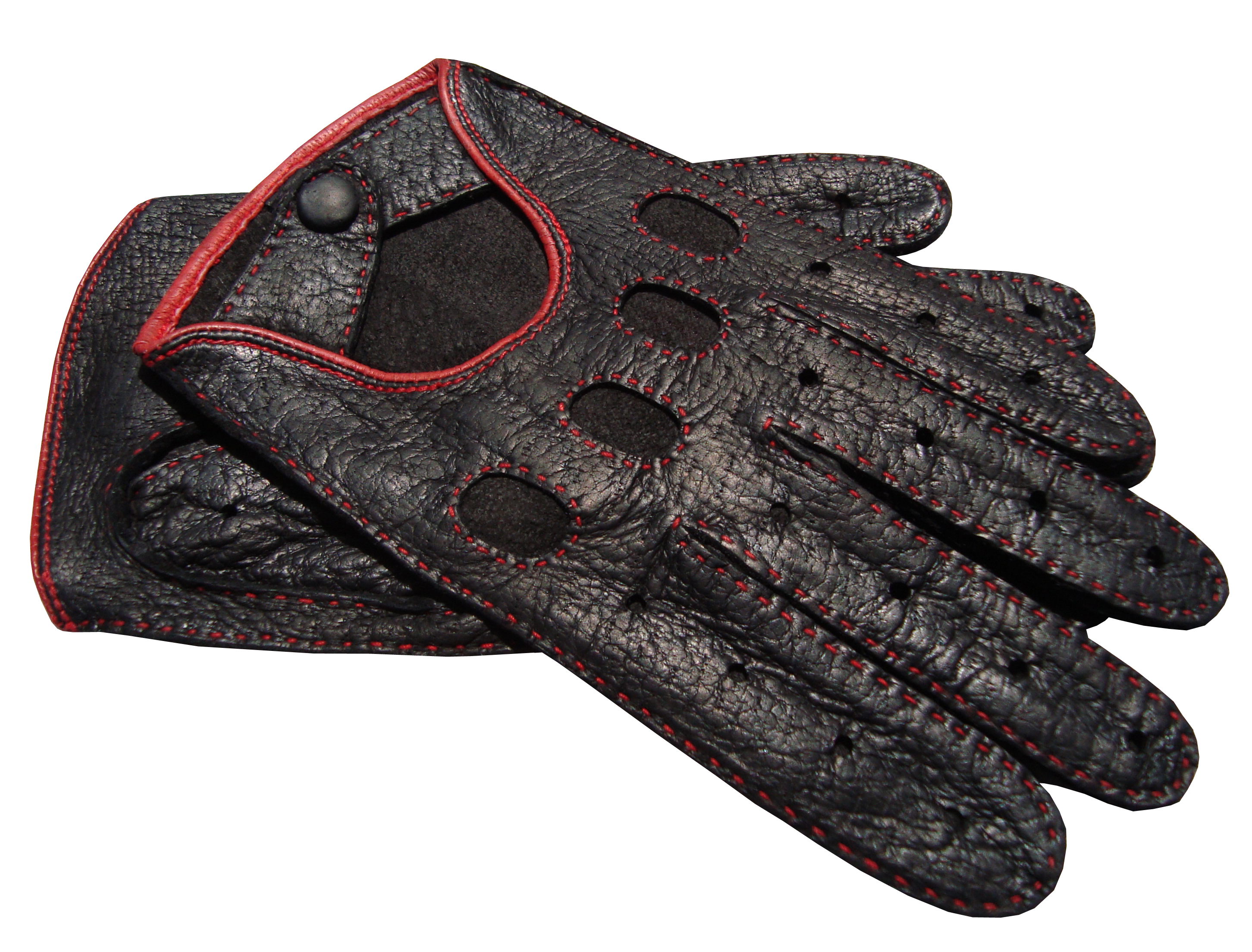 Peccary Driving Gloves Black.